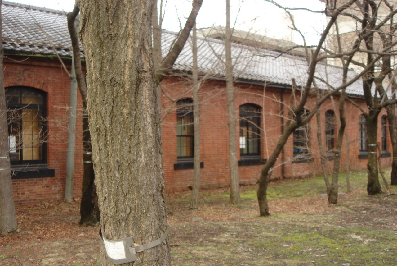 A red-brick warehouse of Medical School, Shinshu University. Built in 1908 as a warehouse of the 50th Infantry Regiment, Imperial Japanese Army.